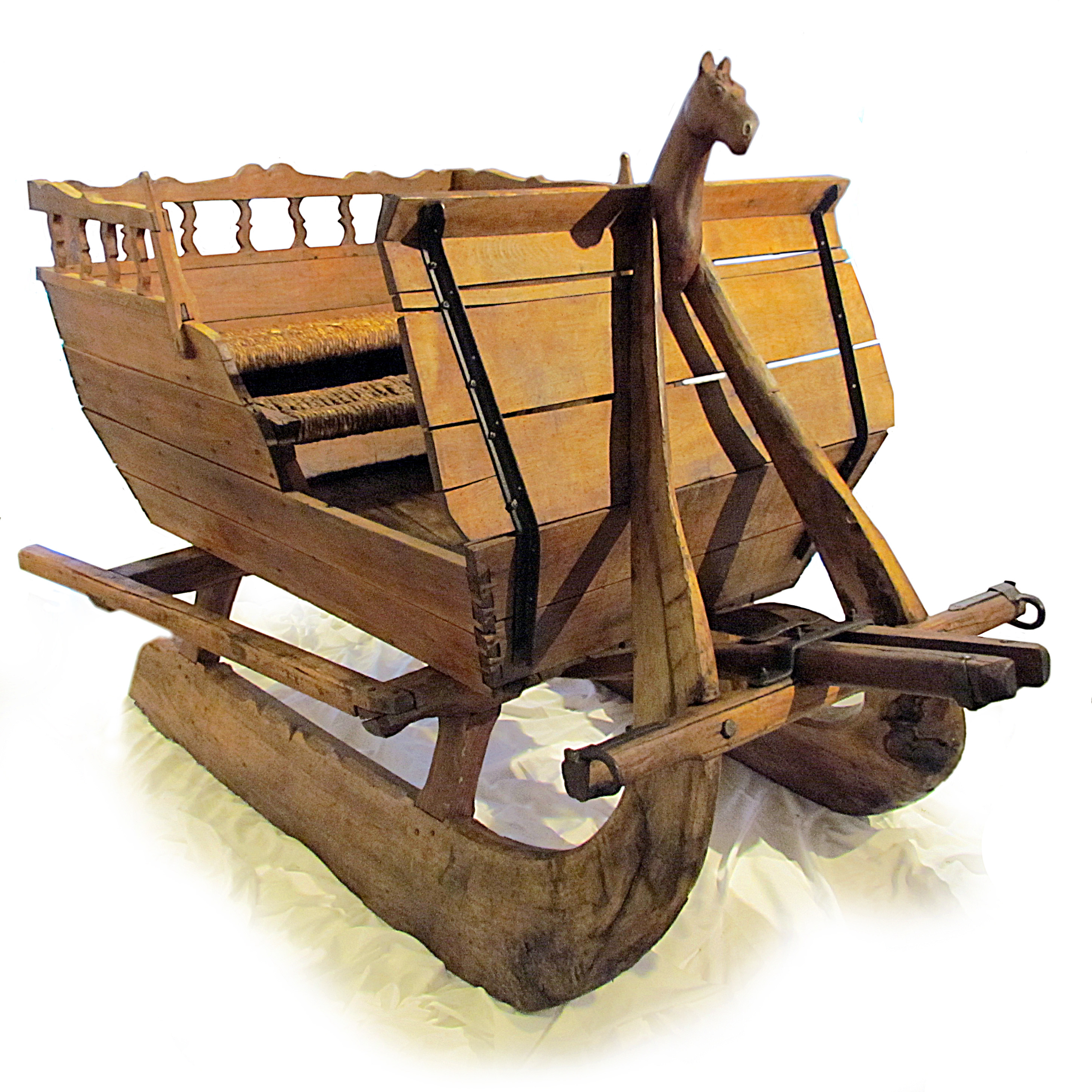 Horse-drawn sleigh from Serbia